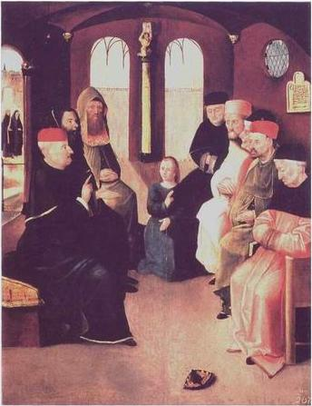 before restoration.